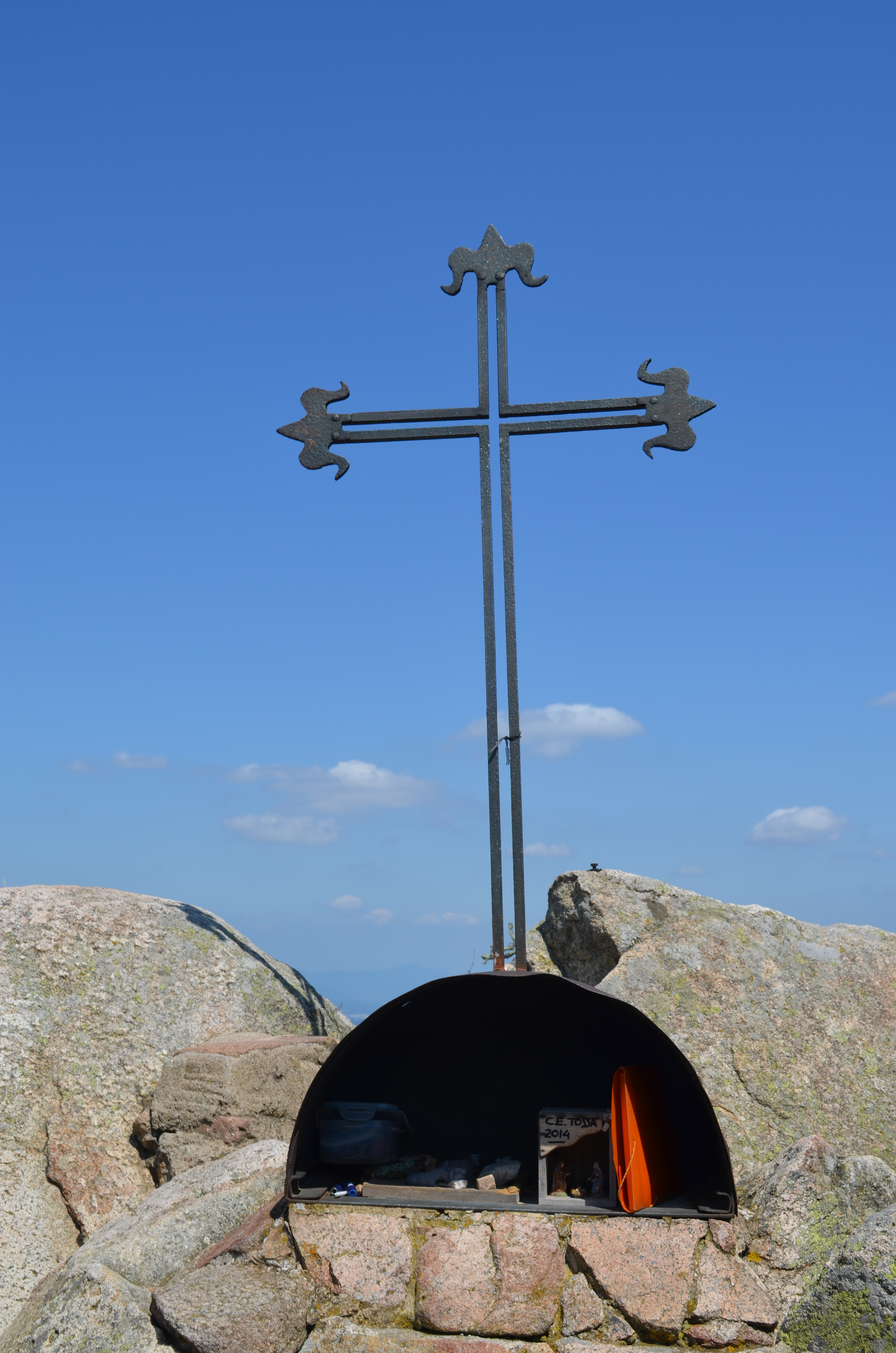 Puig de les Cadiretes, summit cross